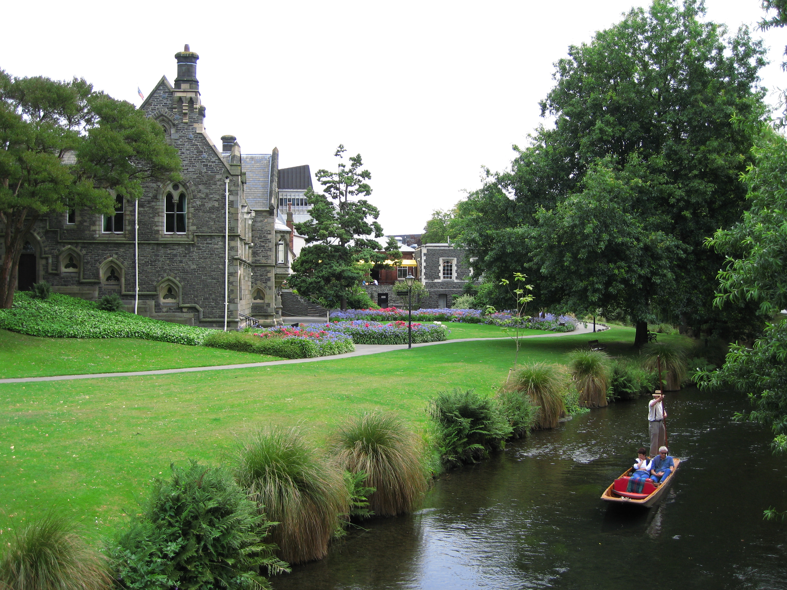 Canterbury Provincial Council Buildings (with Avon River punter in foreground), Christchurch, New Zealand. New Zealand Historic Places Trust Register number: 45.